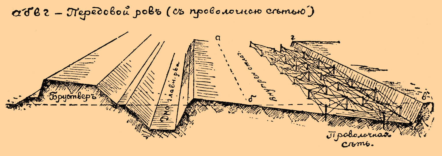 Illustration from Brockhaus and Efron Encyclopedic Dictionary (1890—1907)